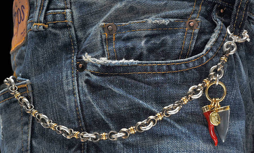 modern Charivari dressed with a jeans